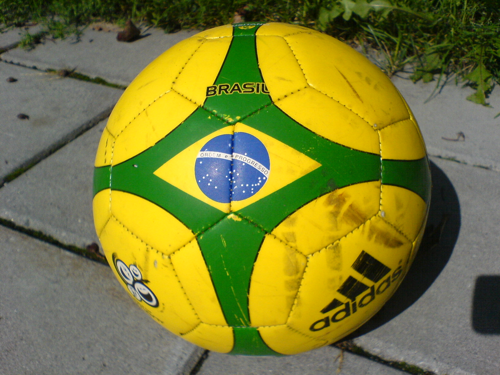 Football ball, made in occasion of World Championship 2006 in Germany. Brasilian colours, replique.